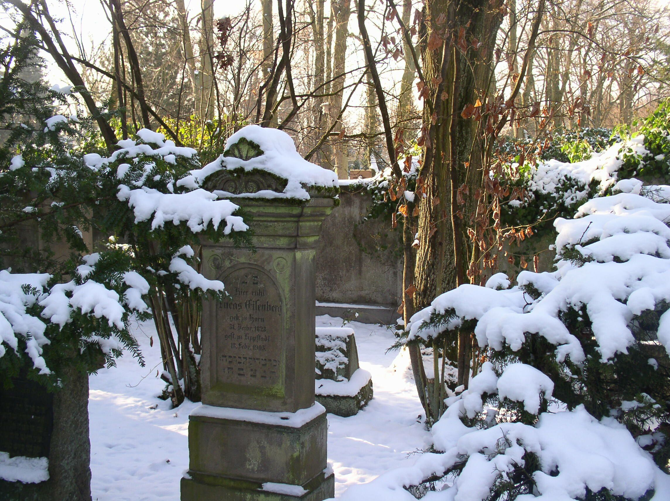 Jewish Cemetary in Lippstadt, Germany